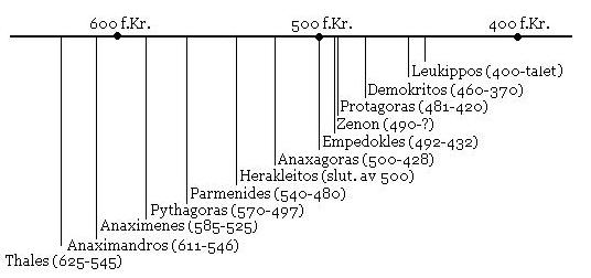 Scheme over the presocratic philosophers dates of birth